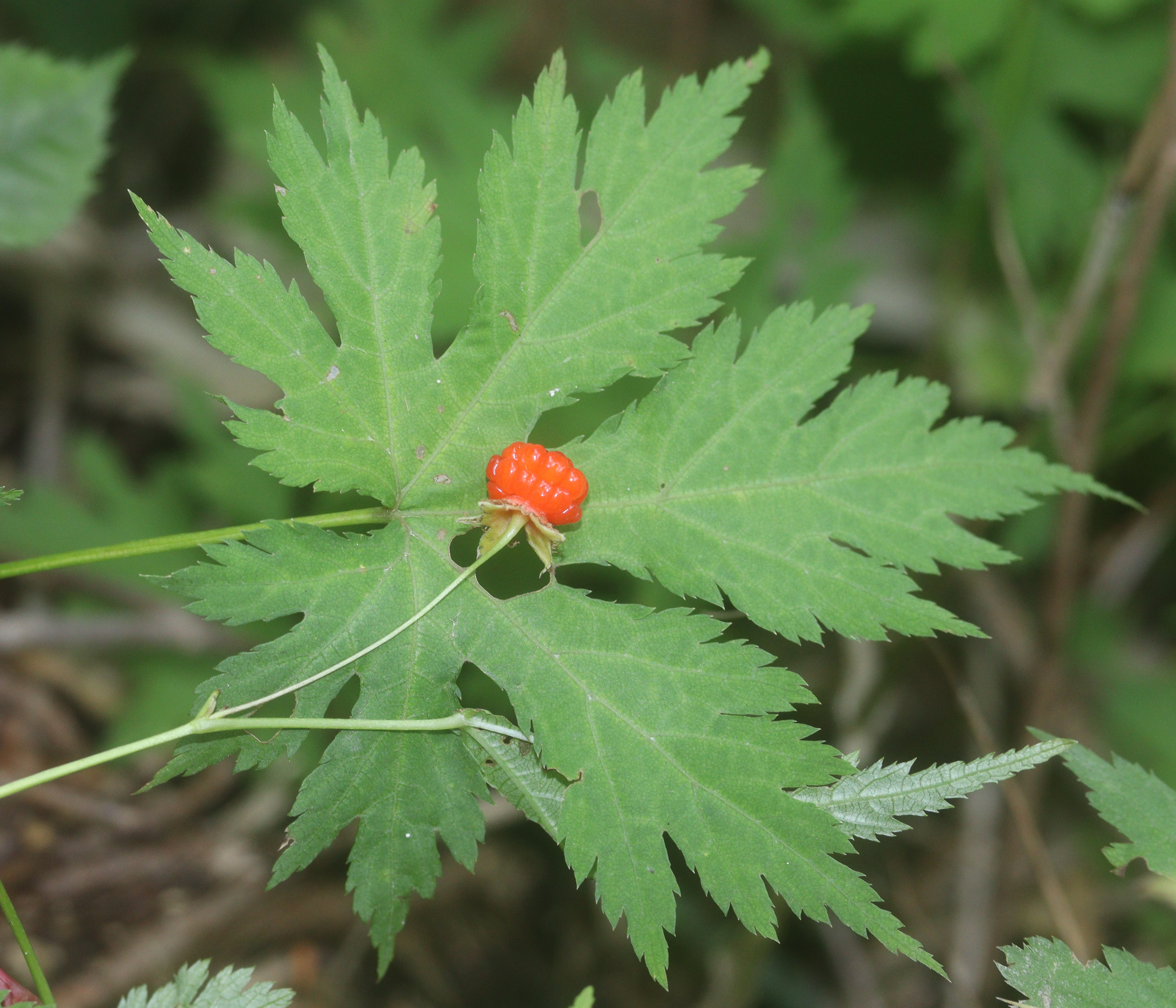 Rubus pseudoacer in Mount Kohide, Nakatsugawa, Gifu Prefecture, Japan. Canon EOS Kiss X10